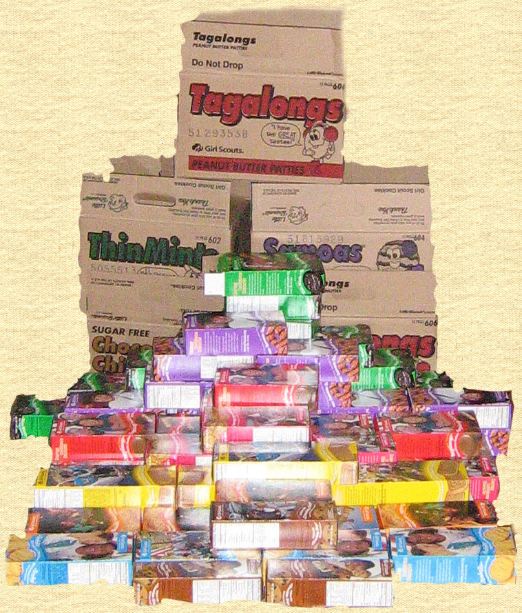 I took the picture myself.